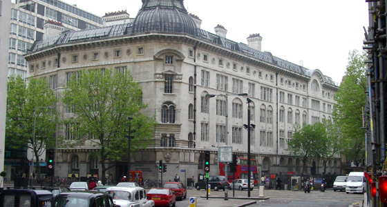 Central School of Arts and Crafts